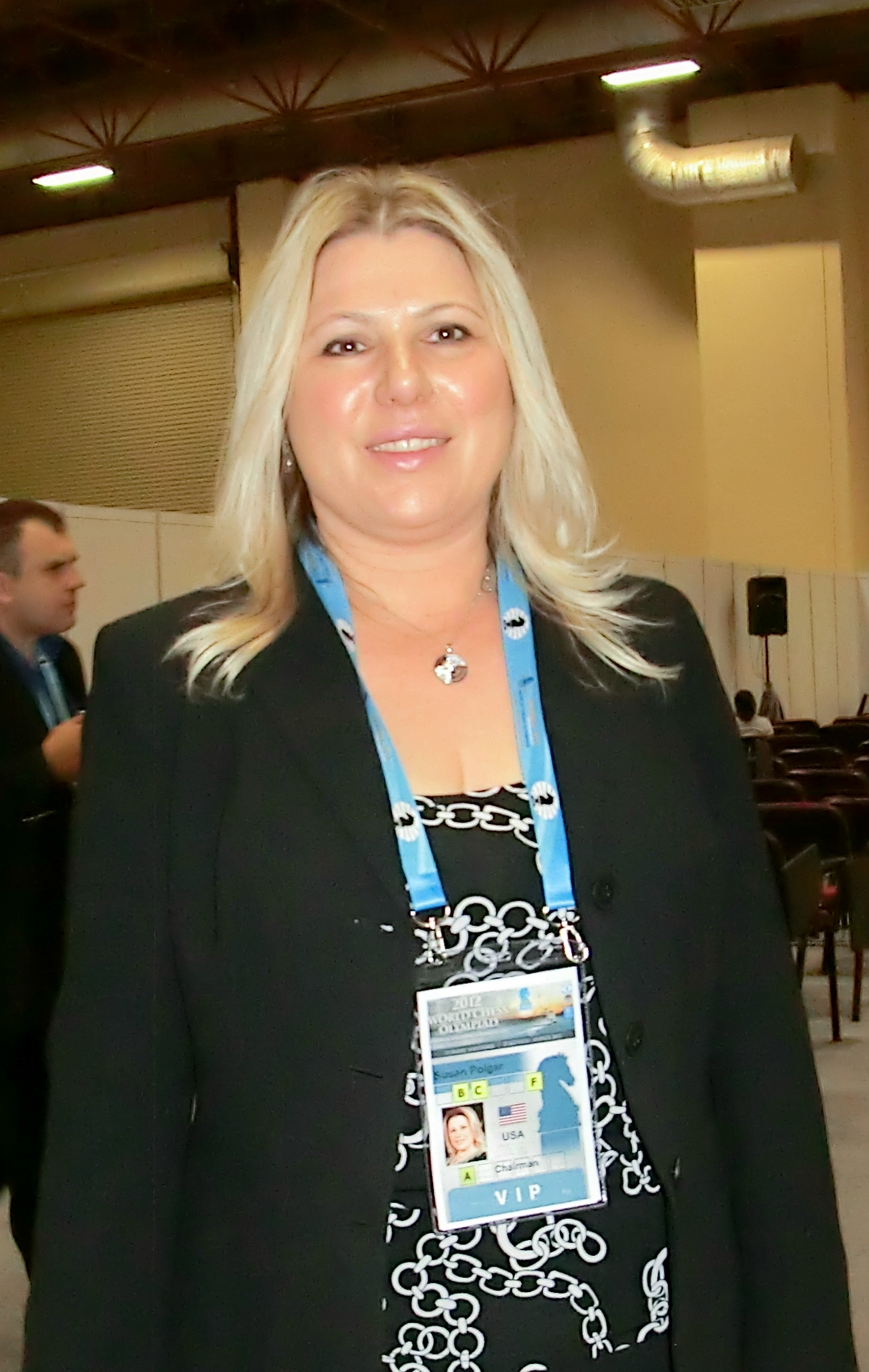 Susan Polgar, chess grandmaster